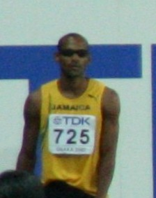 World Athletics Championships 2007 in Osaka: Maurice Wignall